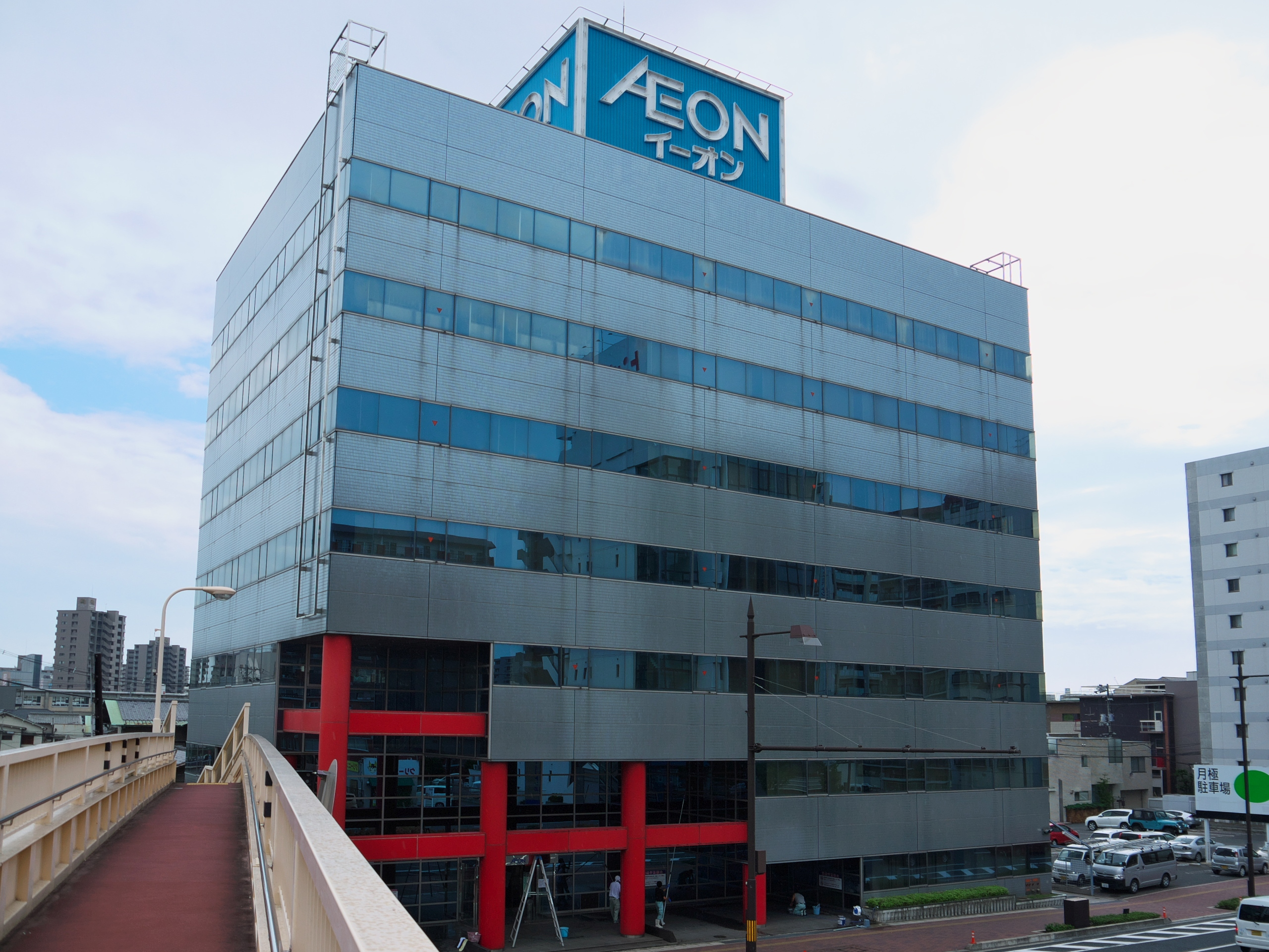 Headquartes of AEON Holdings Corporation of Japan in Koseicho, Kita-ku, Okayama